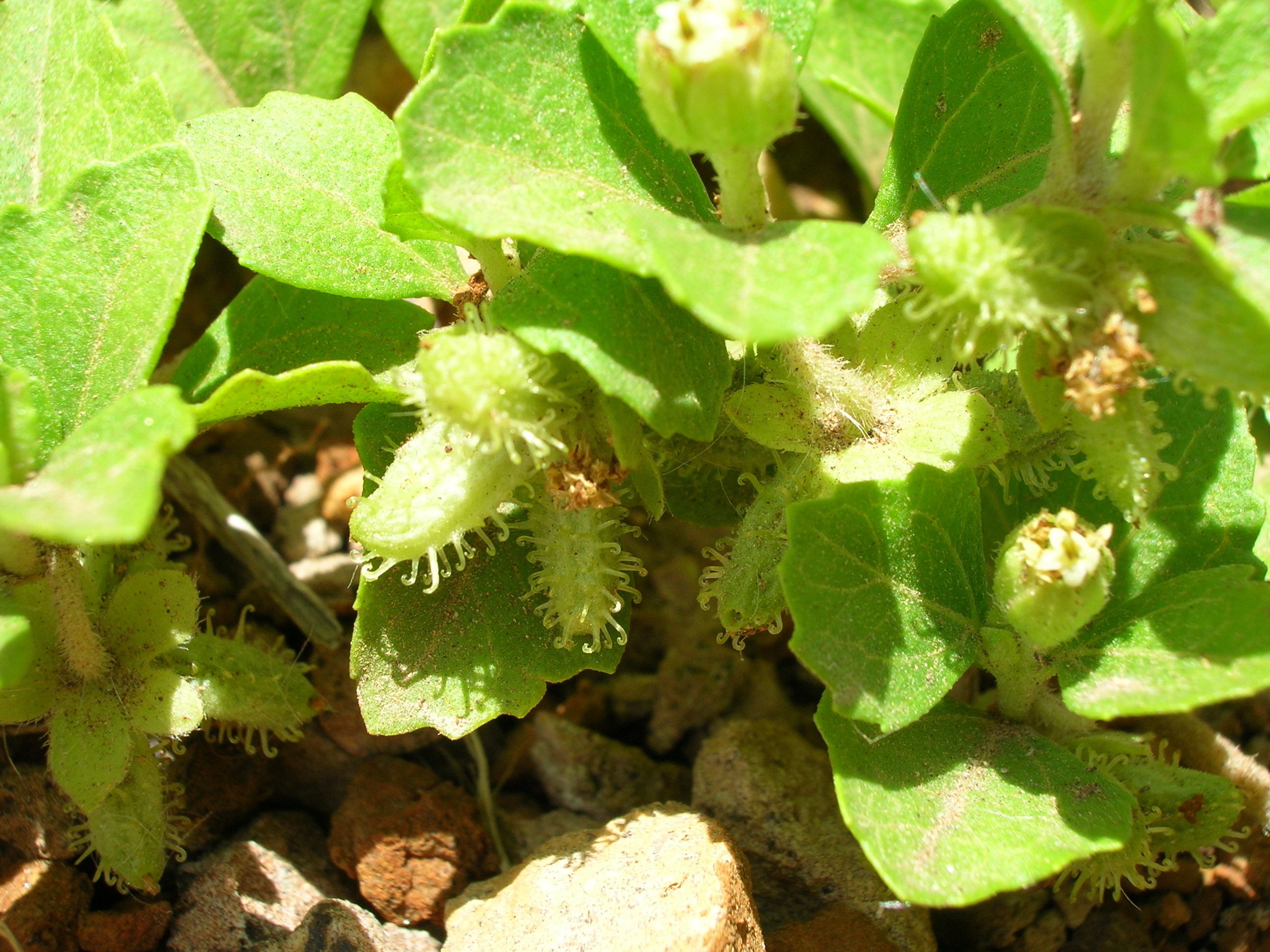 Acanthospermum australe (habit). Location: Molokai, Kukumamalu gulch